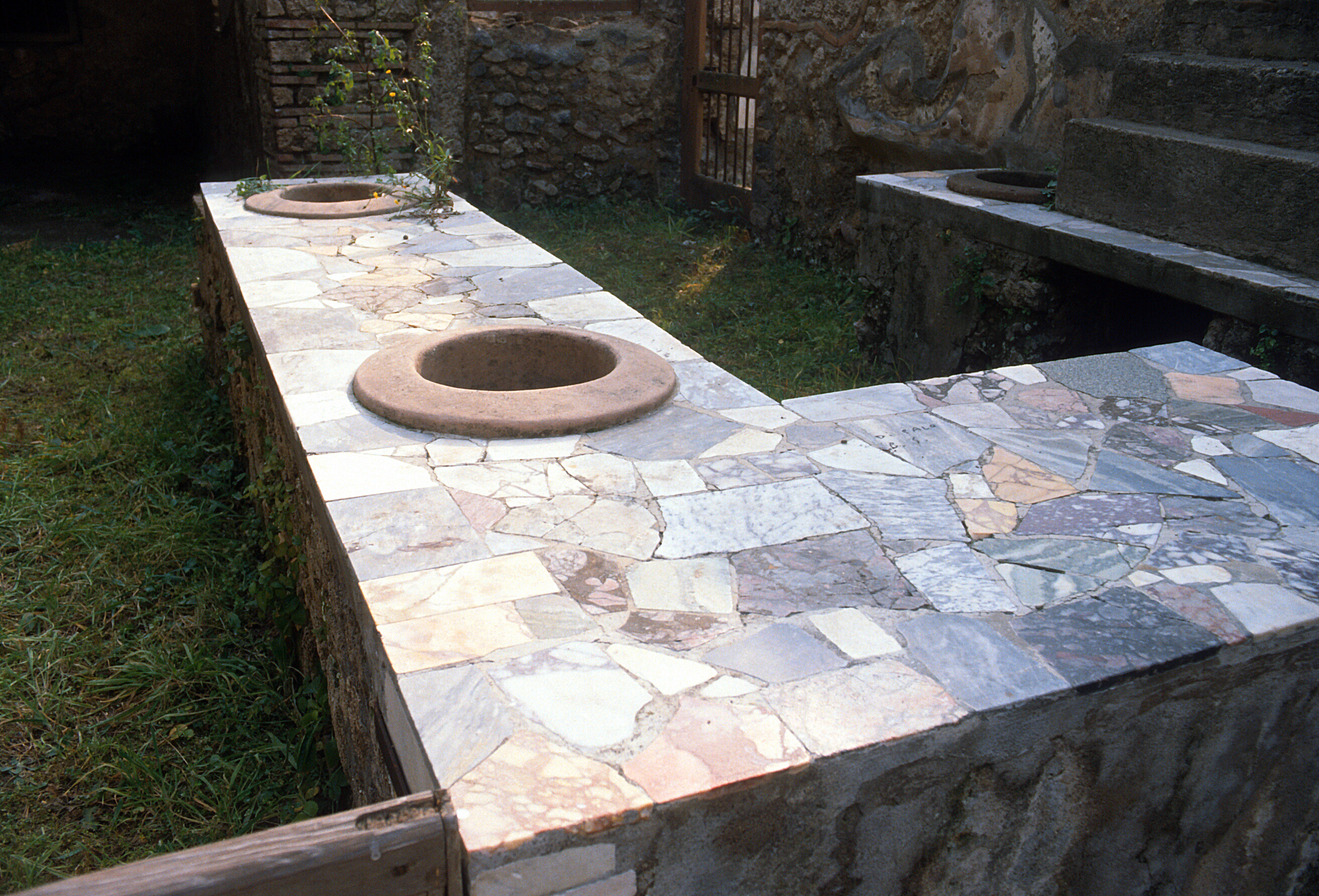 Ancient bar setting for amphora wine jars in the Italian city of Pompeii.